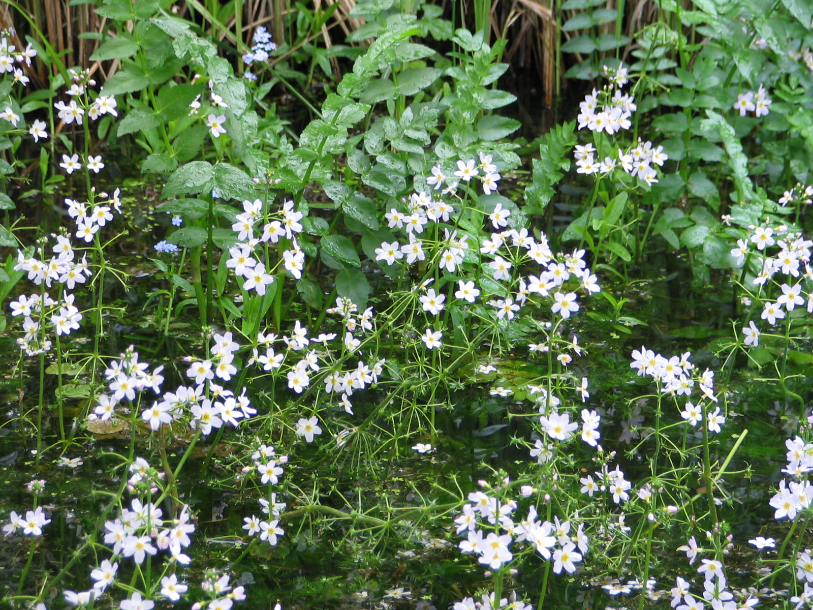 Hottonia palustris, Mönchsbruch, Germany